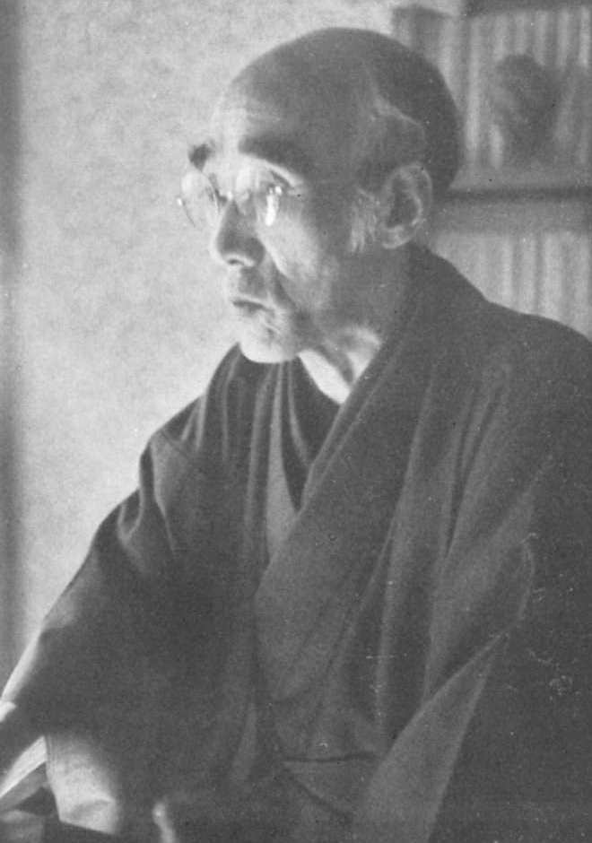 Koji Uno